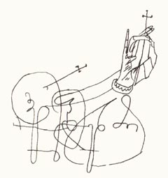 Domenti IV, Catholicos of Georgia. Signature